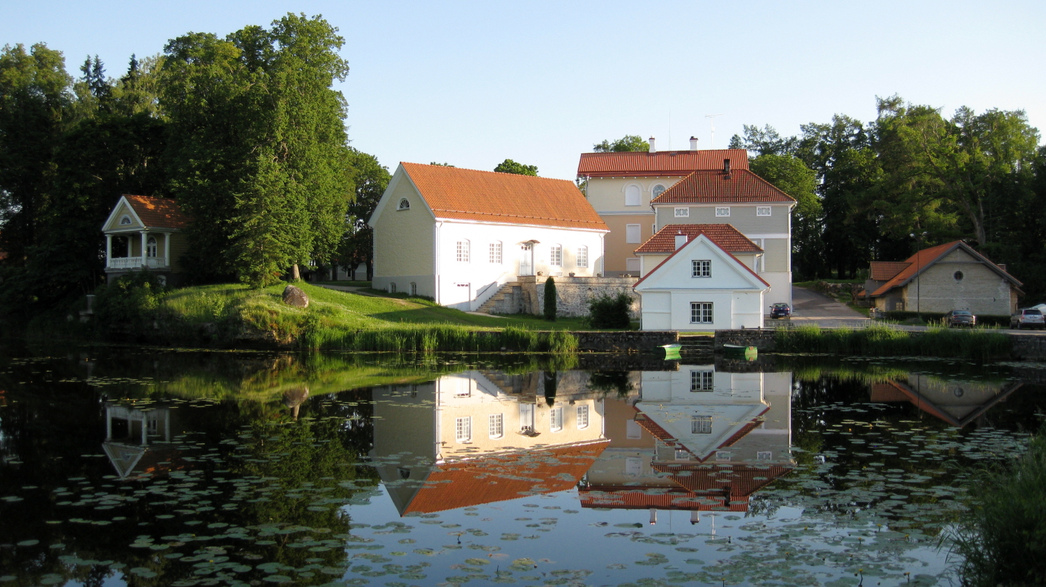 Vihula manor